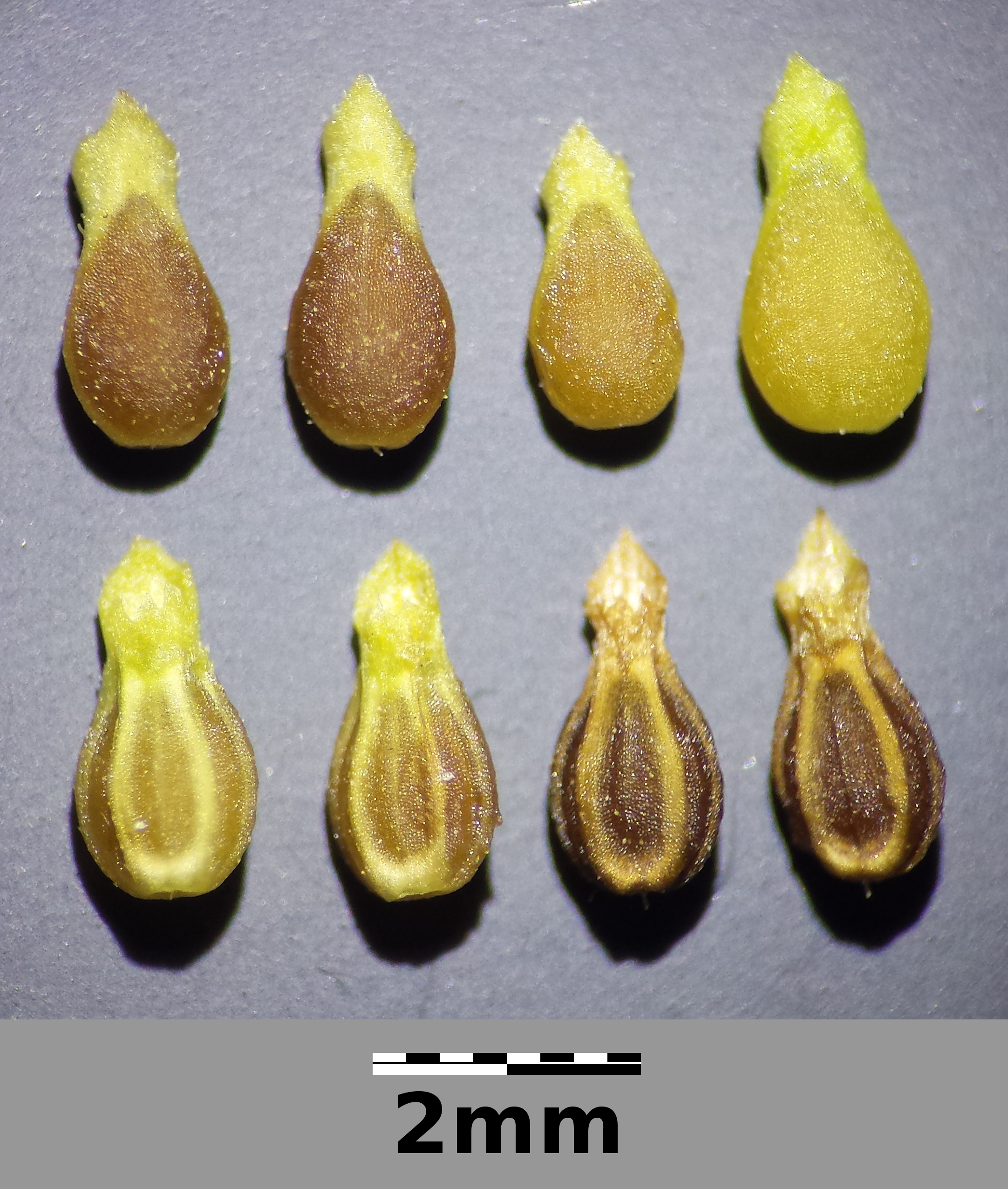 Fruits Taxon: Valerianella dentata (sensu Fischer et al. EfÖLS 2008 ISBN 978-3-85474-187-9) Location: Leiser Berge, district Korneuburg, Lower Austria - ca. 400 m a.s.l. Habitat: grainfield